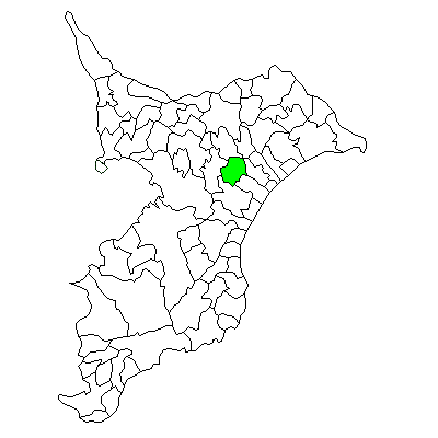 Location Map of former Sanbu Town, Chiba Prefecture, Japan, now part of Sanbu City.